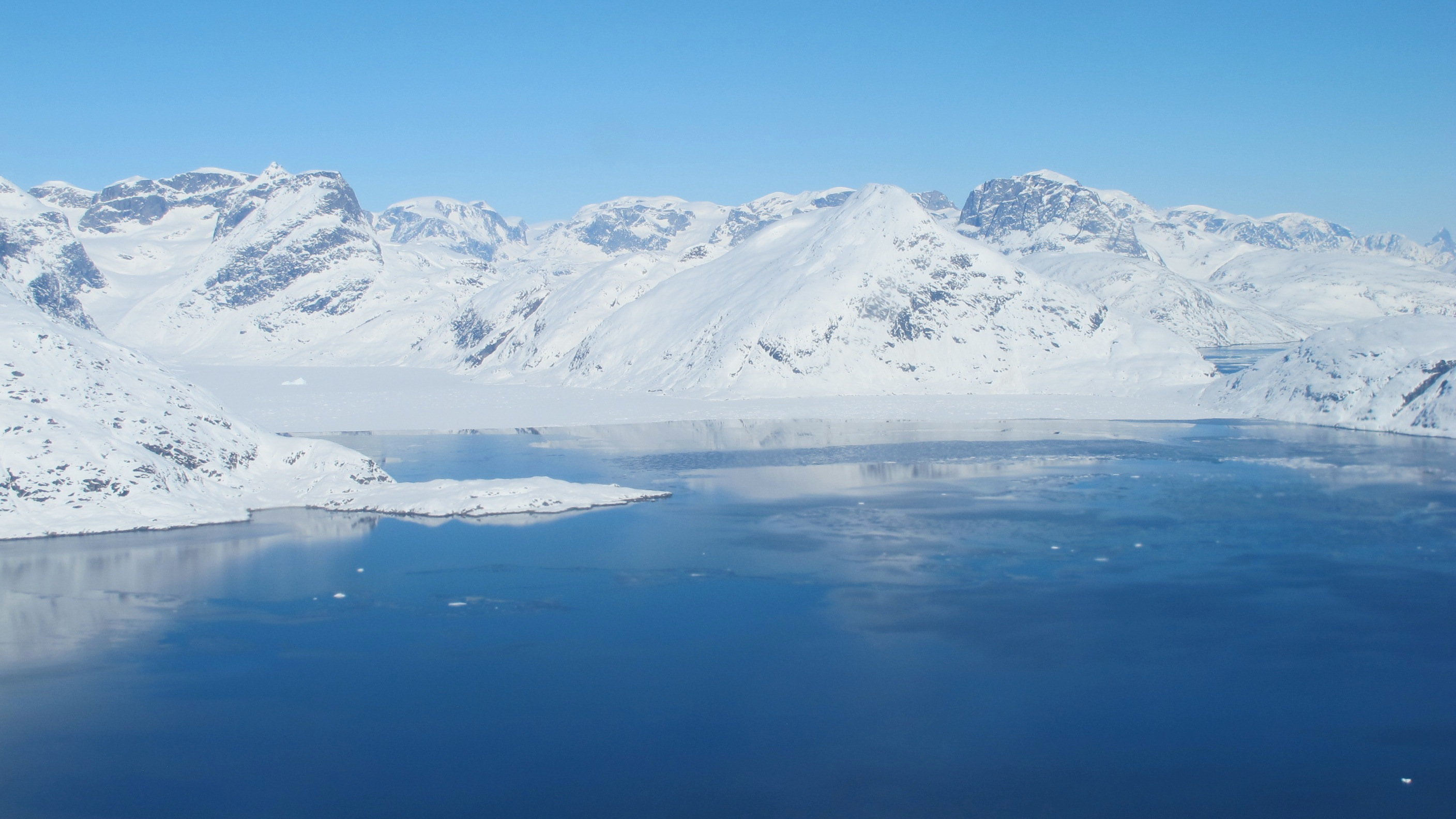 A fjord in southeast Greenland seen from the NASA P-3B during an IceBridge glacier survey on Apr. 9, 2013. Glaciers flow through valleys into fjords, which are ocean inlets carved into rock by glacial activity.